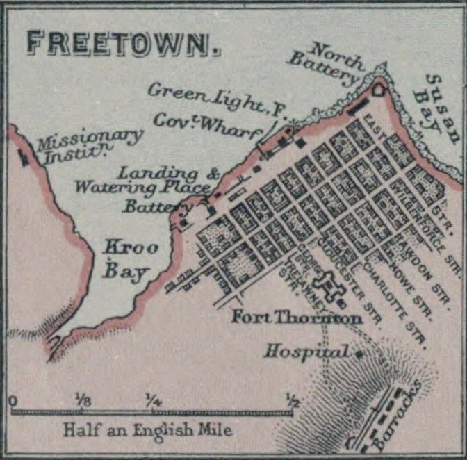 Map of Freetown Harbour (Sierra Leone)